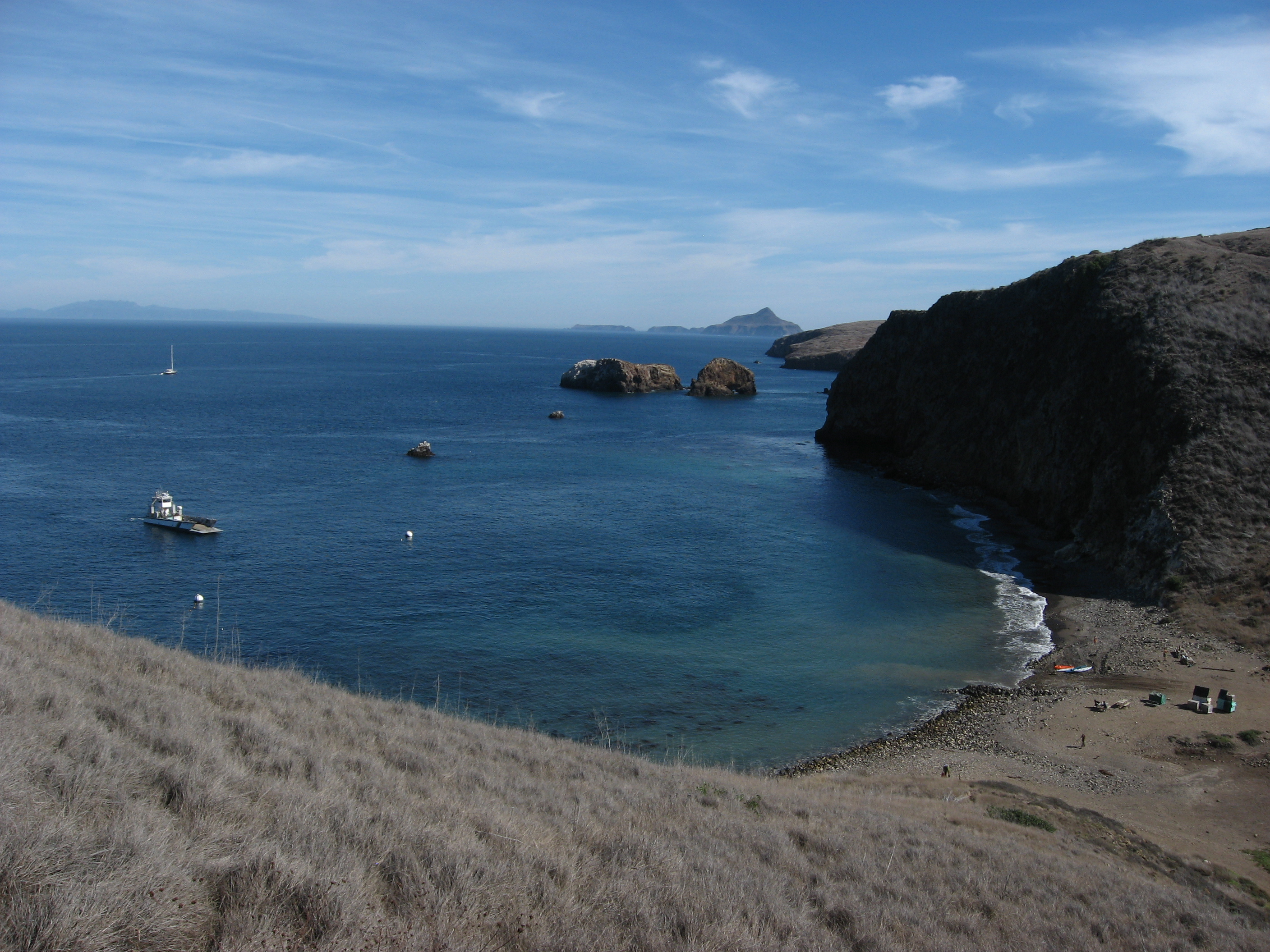 Scorpion Harbor, Santa Cruz Island, Channel Islands National Park, California